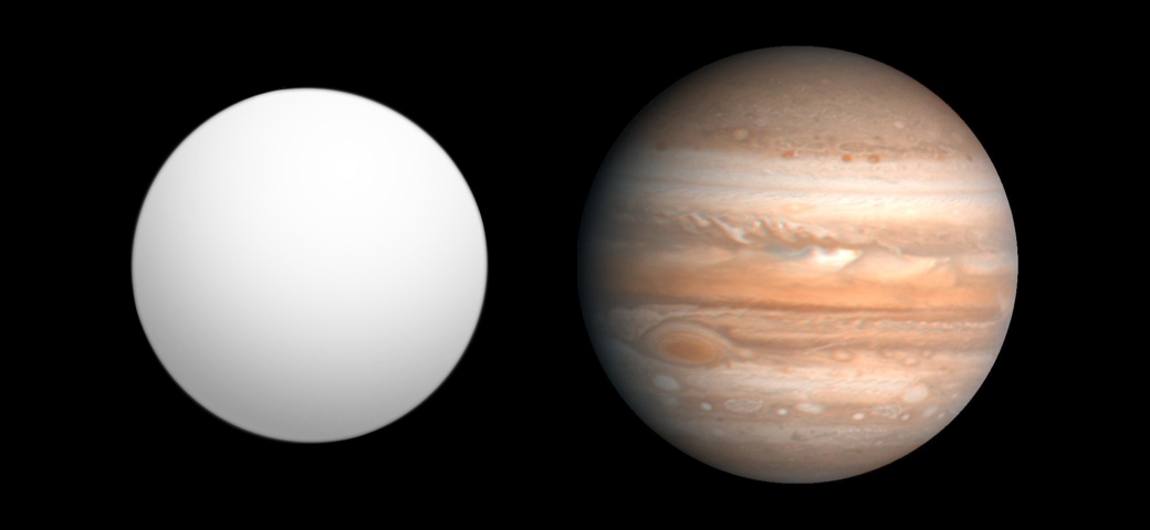 Comparison of best-fit size of the exoplanet SWEEPS-04 b with the Solar System planet Jupiter, as reported in the Extrasolar Planets Encyclopaedia[1] as of 2010-10-03. ↑ Extrasolar Planets Encyclopaedia (2010-09-30). Retrieved on 2010-10-03.